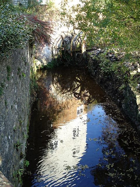 Thurnham Mill, Otham Lane